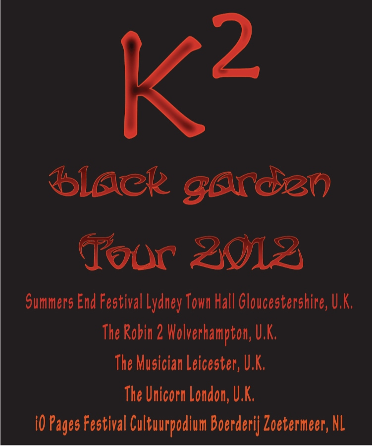 Logo with itinerary